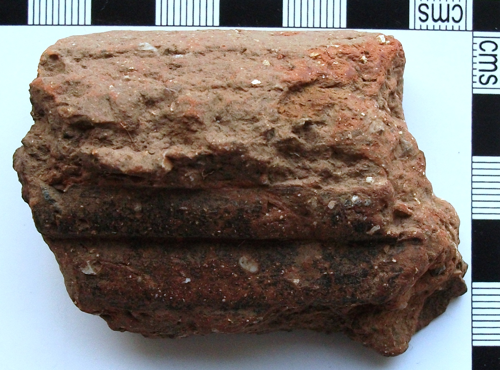 A rim sherd from a large urn. Unfortunately the outer lip is destroyed so its original form is unknown. However there is the beginning of a cordon like the 2 below these so it may be similar or more projecting. Cordons are often found on Iron Age pottery and a few Trevisker Bronze Age urns have cordons under the rim. Cornish Archaeological Journal 30, page 119, fig 50 has this design and it is in The Royal Cornwall Museum with oblique downward running platted cords as 2 sherds, from that site(TRURI: 1991.78a 11-12,4. Howevever the sherd described here has to be orientated upright with a pointed rim and this is more of a Neolithic trait.The clay composition has numerous small 1-2mm corroded white felspar with other small particles including angular black augite.This is likely gabbroic clay sourced from the Lizard area, Cornwall. Several larger grits of up to 8mm are included but they may have come with the clay rather than being a Bronze Age style admixture. Henrietta Quinnell has identified this sherd as Grooved Ware. It is from a pot of about 0.4metres diameter and is well fired so one of the more interesting Grooved ware finds from this area outlying a closely spaced group, including Grooved Ware and Bronze Age pottery, daub and broken in half granite quern and greenstone mortar.